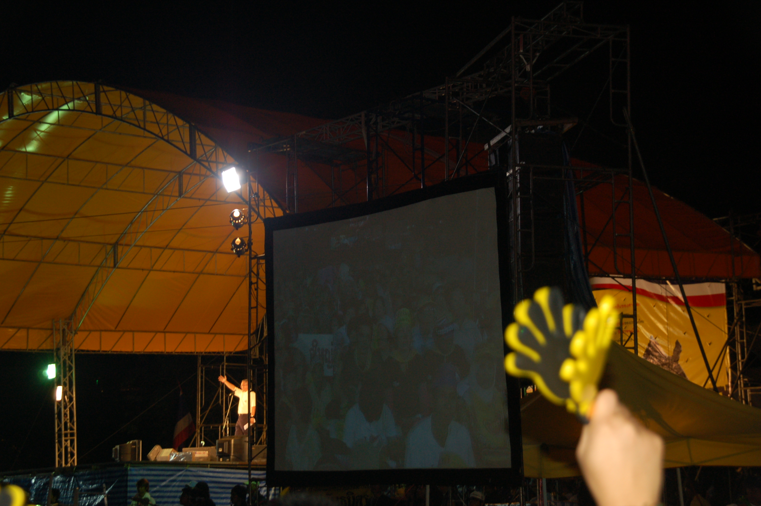 A Hand Clapper during a People's Alliance for Democracy (PAD) protest at Makkawan bridge, Bangkok. The man talking onstage is Sondhi Limthongkul, one of PAD leaders.